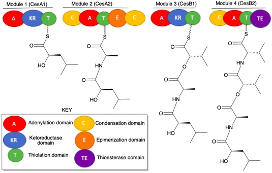 The following depicts the non-ribosomal peptide synthetase of the cereulide tetrapeptide. The growing and modified peptide can be seen on each Thiolation (T) domain. 1. Module 1 (CesA1) loads a-ketoisocaproic acid and reduces it into D-a-hydroxyisocaproic acid (D-HIC). 2. Module 2 (CesA2) loads L-alanine (L-Ala) and epimerizes it to D-alanine (D-Ala). It also condenses the amide bond to form D-HIC-D-Ala. 3. Module 3 (CesB1) loads a-ketoisovaleric acid and reduces it into L-a-hydroxyisovaleric acid (L-HIV). 3.5. A lone condensation domain condenses the ester bond between L-HIV and D-Ala to form D-HIC-D-Ala-L-HIV. 4. Module 4 (CesB2) loads L-valine (L-Val). It also condenses the amide bond to form D-HIC-D-Ala-L-HIV-L-Val.